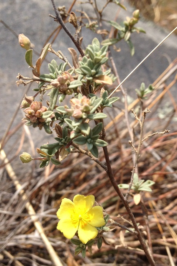 Helianthemum glomeratum is a species in the rose rock family Cistaceae. It is native of the semiarid shrublands and pine-oak forests of Mexico.